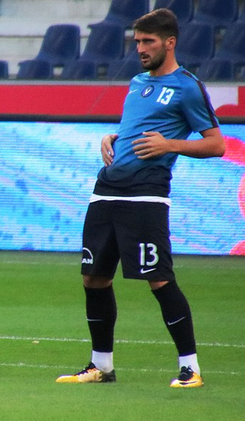 Florin Cioablă playing for Viitorul Constanța.